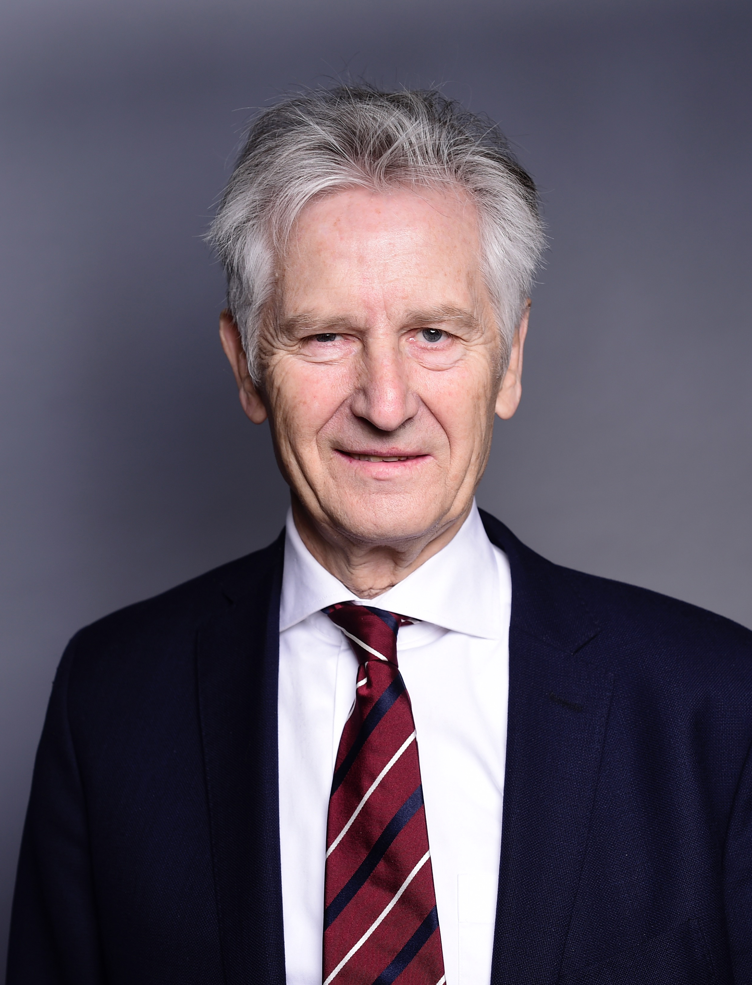 Portrait of Professor Falko von Falkenhayn